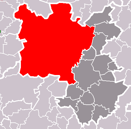 Location of Plzeň city within Plzeň-City District.